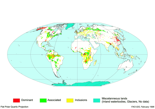 distribution of Gleysols